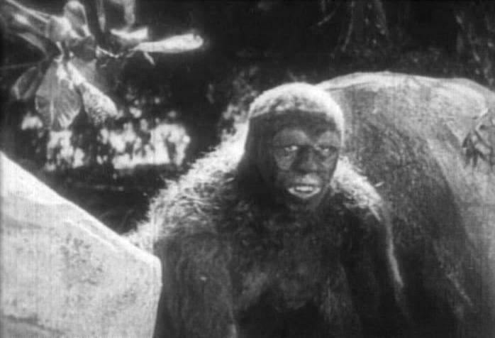 The ape man from The Lost World (1925 film). This image was often used in animated series Drawn Together from Comedy Central.